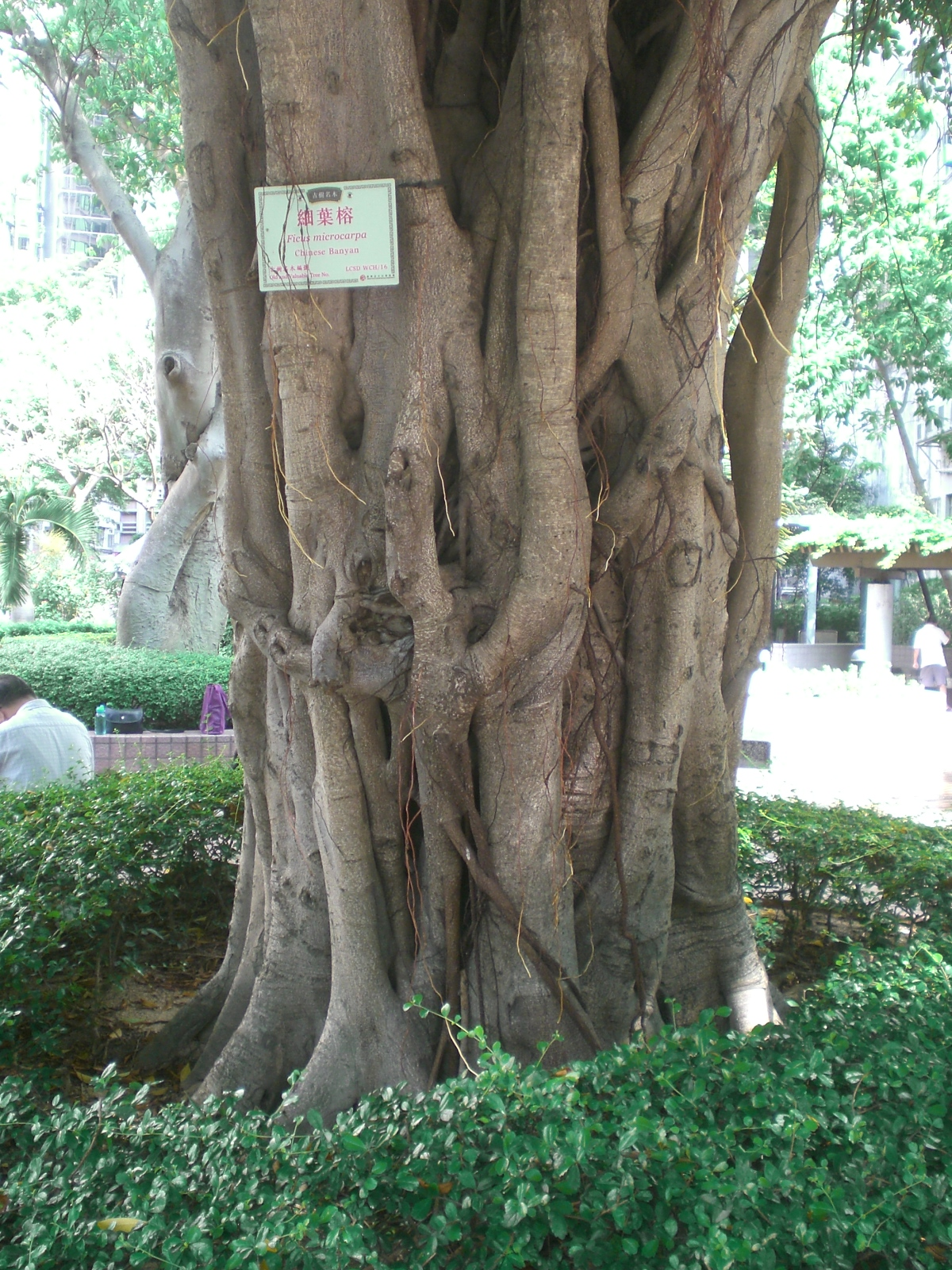 灣仔公園